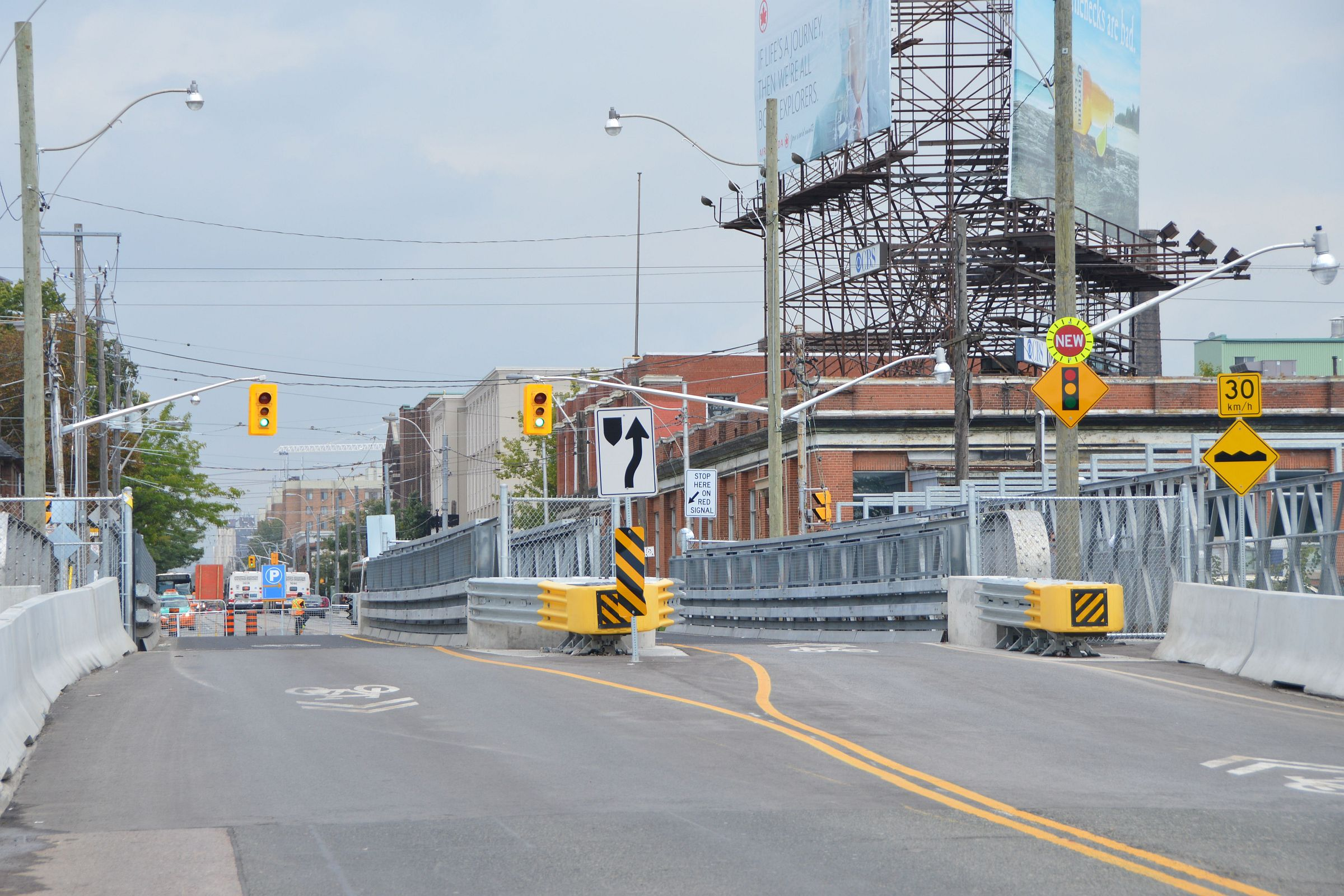 Dufferin Street temporary bridge over Lakeshore railway line in Toronto